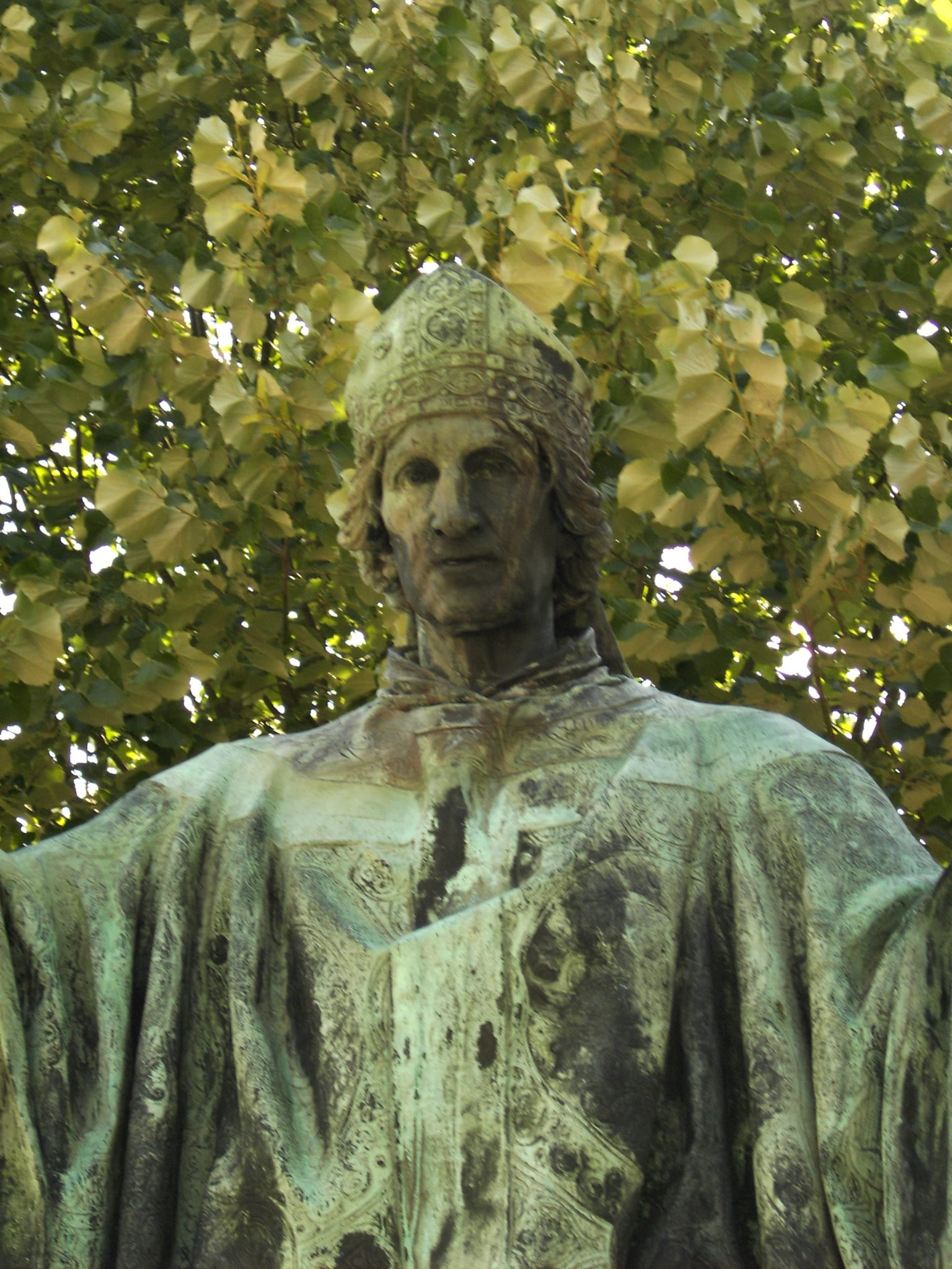 Hildesheim, Domhof, Statue of Bernward of Hildesheim (Detail)